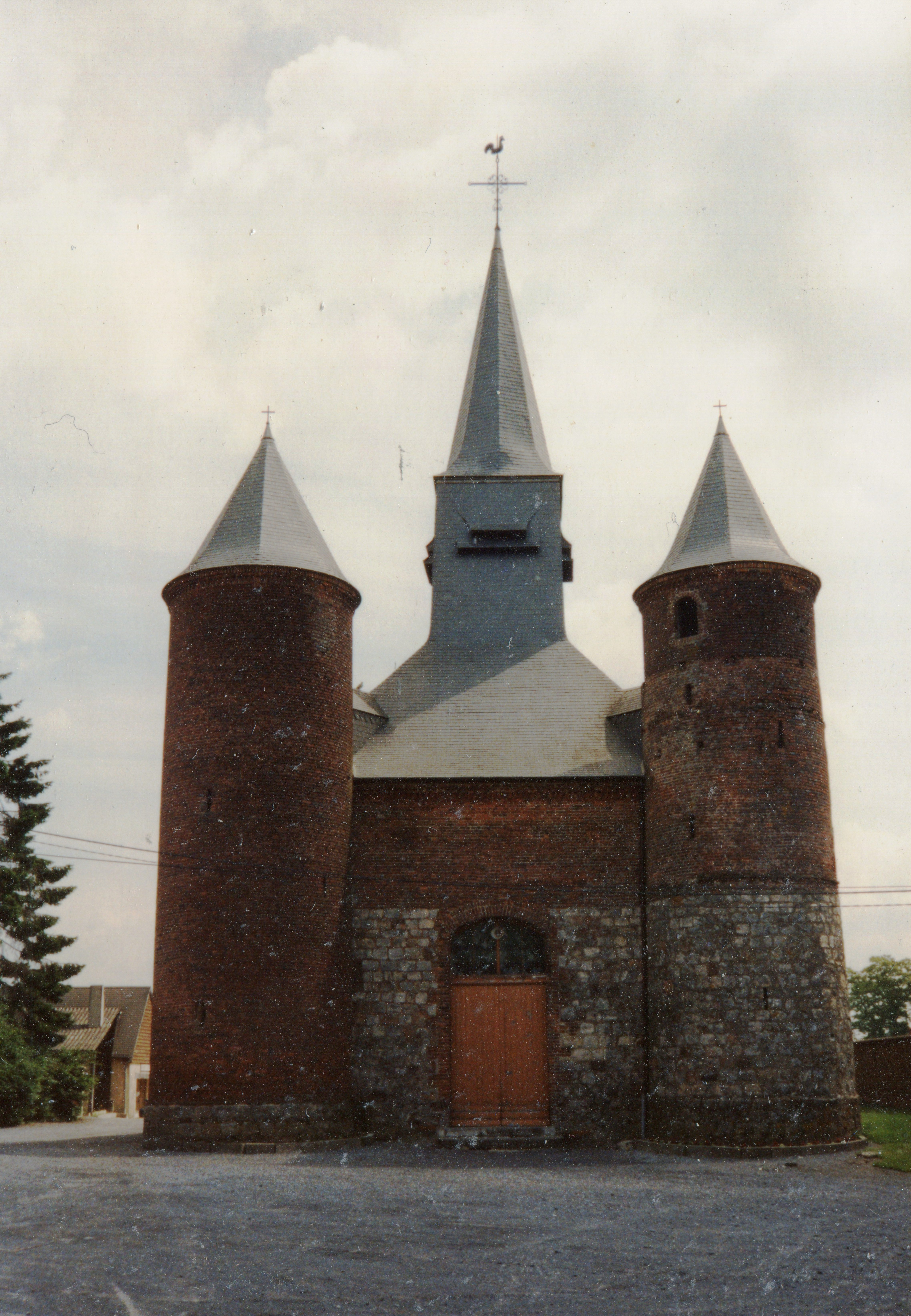 Église Notre-Dame de La Bouteille en 1991